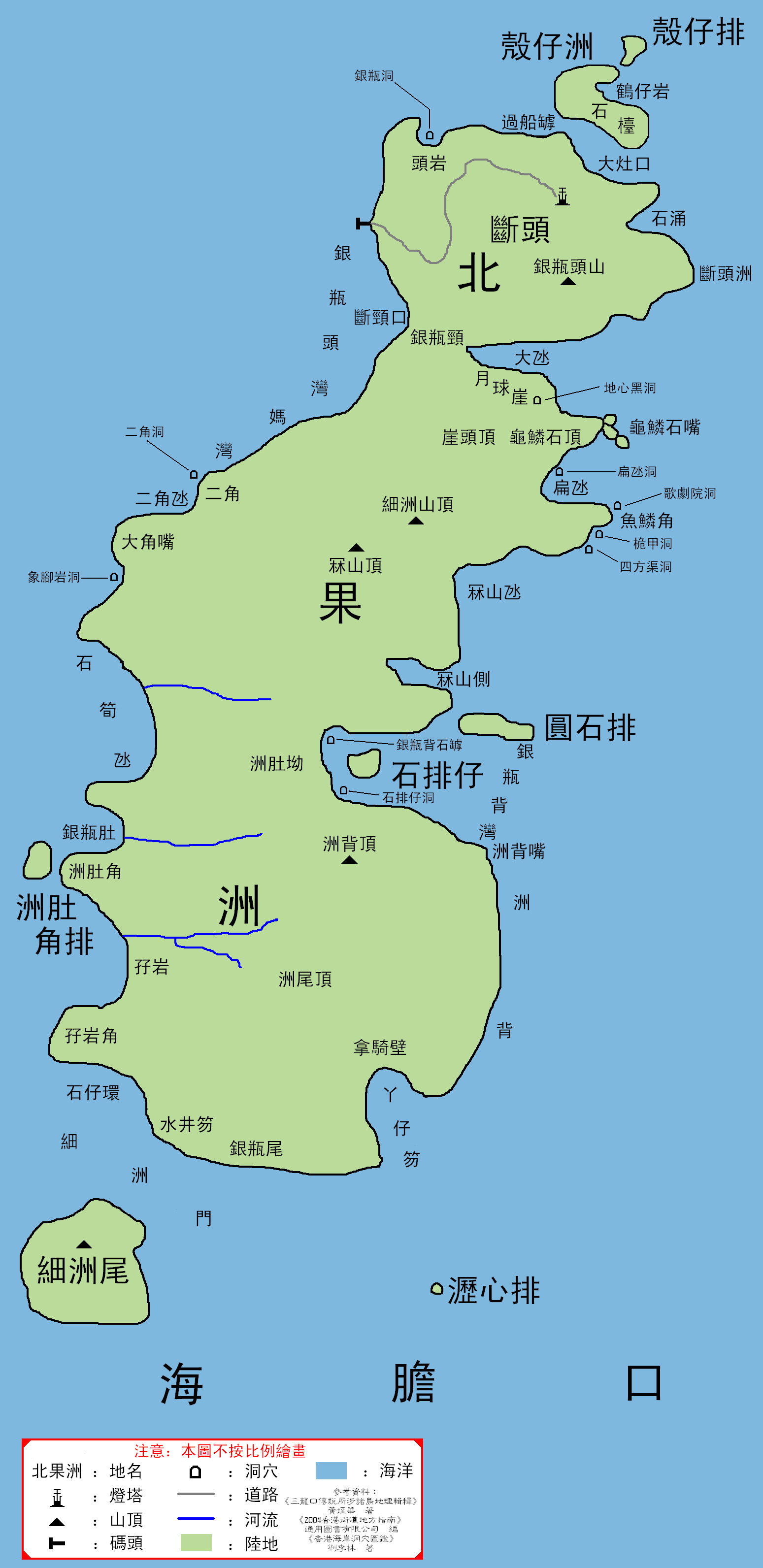 North Ninepin Island. 中文（香港）: 北果洲。